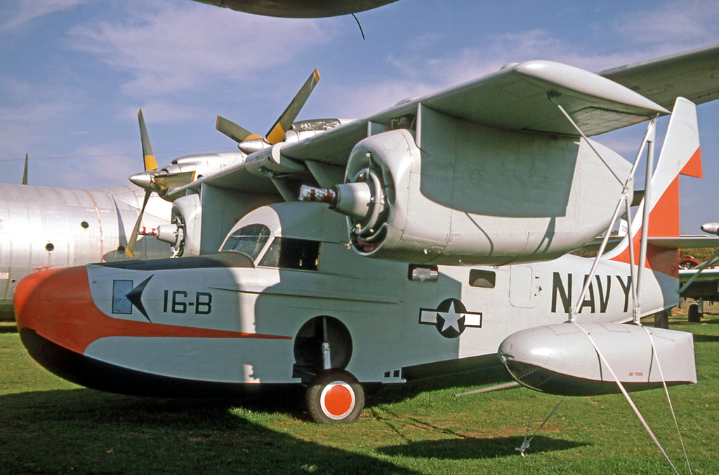 Kaman K-16B 04351 tilt-wing aircraft converted from Grumman JRF-5 Goose